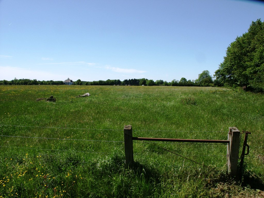 Battlefield of Rocroi